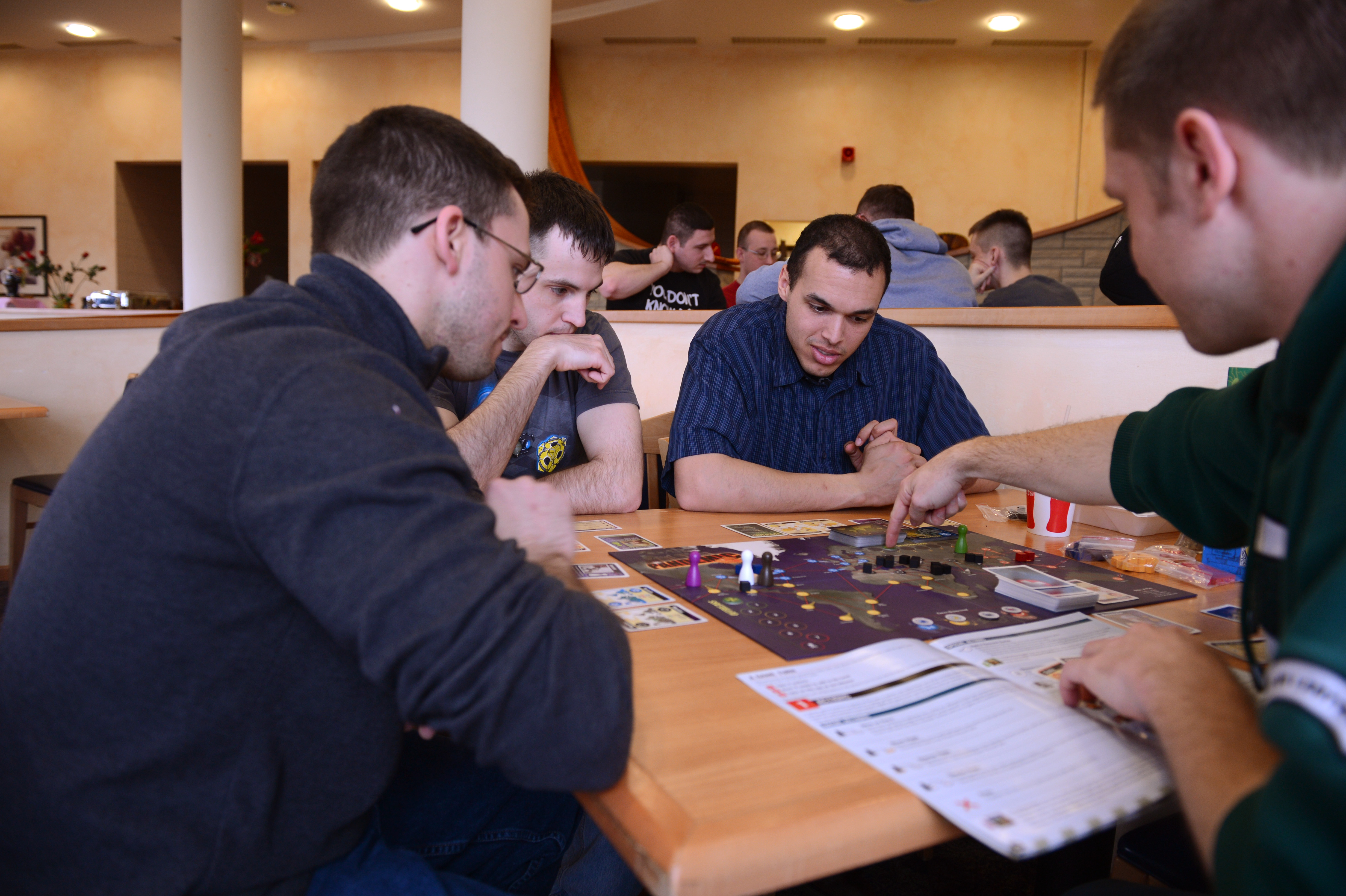 SPANGDAHLEM AIR BASE, Germany – U.S. Air Force Airmen play Pandemic together at Club Eifel April 6, 2013. This table-top gaming night is hosted by the 52nd Force Support Squadron for new and experienced gaming enthusiasts.